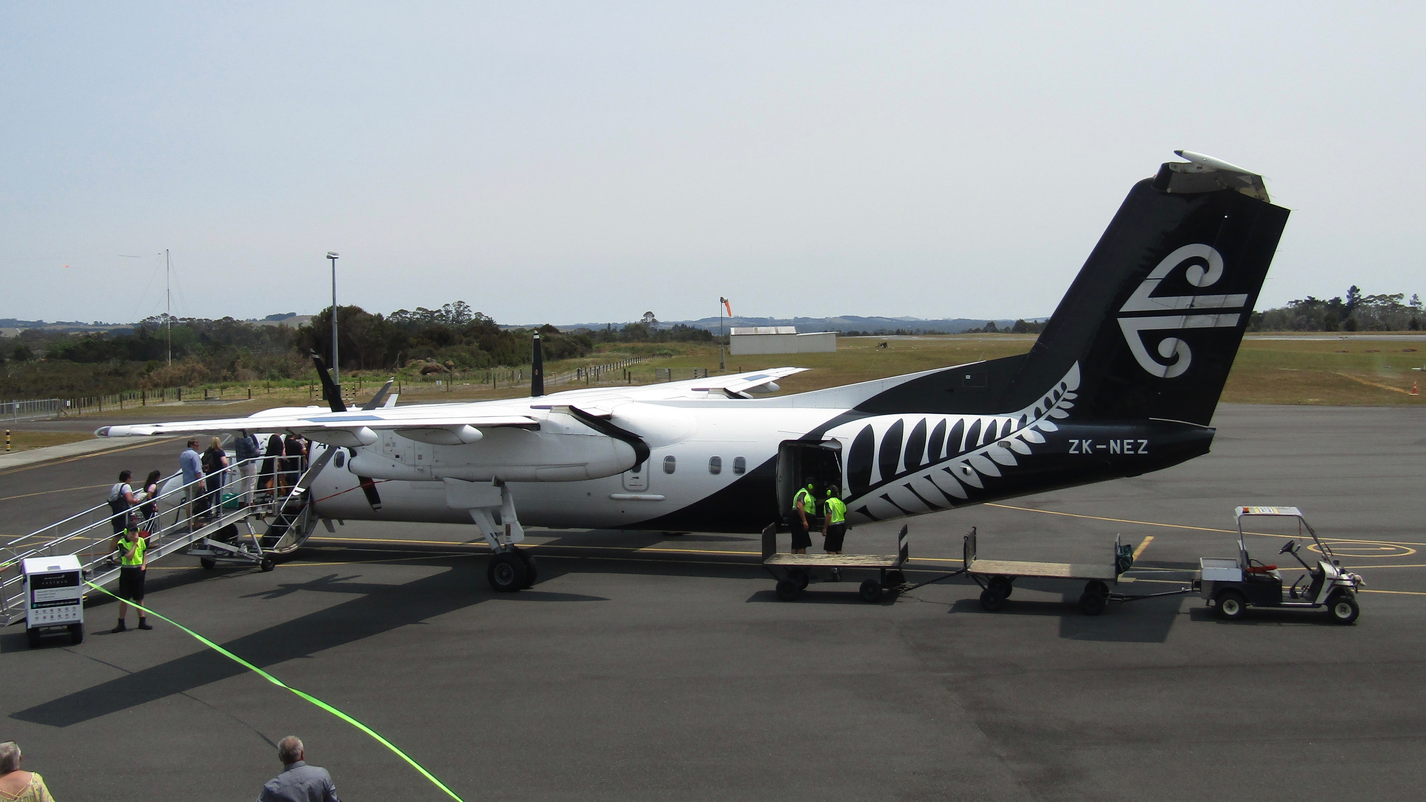 Air New Zealand Dash 8 Q300 ZK-NEZ seen from the second floor of the new terminal at Kerikeri Airport on the 2nd of January 2020.